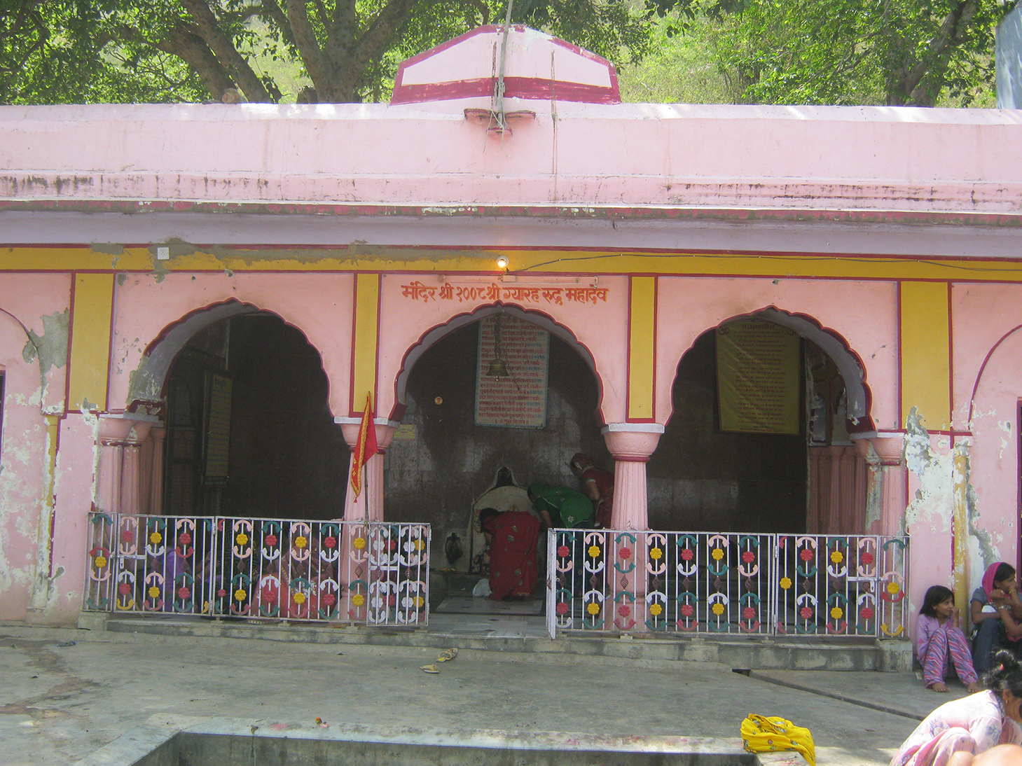 Main Temple of Jhajhirampura Shrine